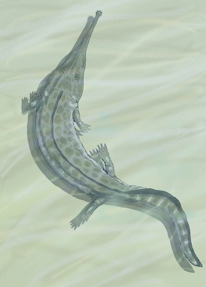 Prionosuchus from the Permian, probably the largest amphibian ever. Prionosuchus plummeri.